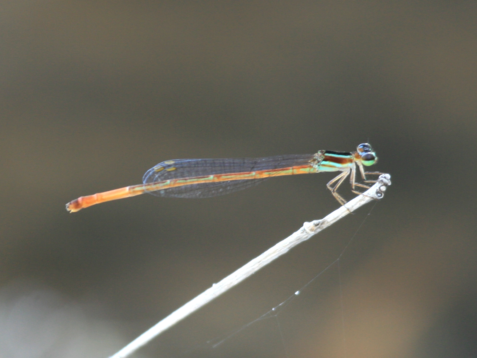 female Red-tipped Shadefly (Argiocnemis rubescens), a damselfly in north Queensland, Australia